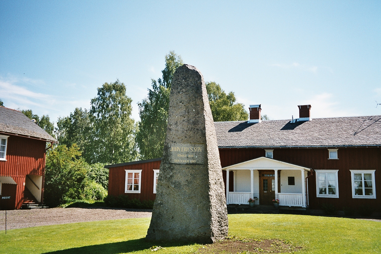 John Ericsson Memorial near his village of birth Långbanshyttan, near Filipstad, Sweden.